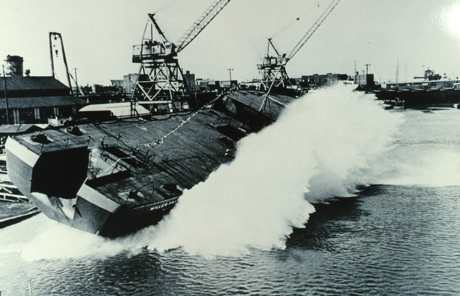 The United States Fish and Wildlife Service Bureau of Commercial Fisheries research ship is launched by the American Shipbuilding Company at Toledo. She later became the National Oceanic and Atmospheric Administration fisheries research ship NOAAS Miller Freeman (R 223)